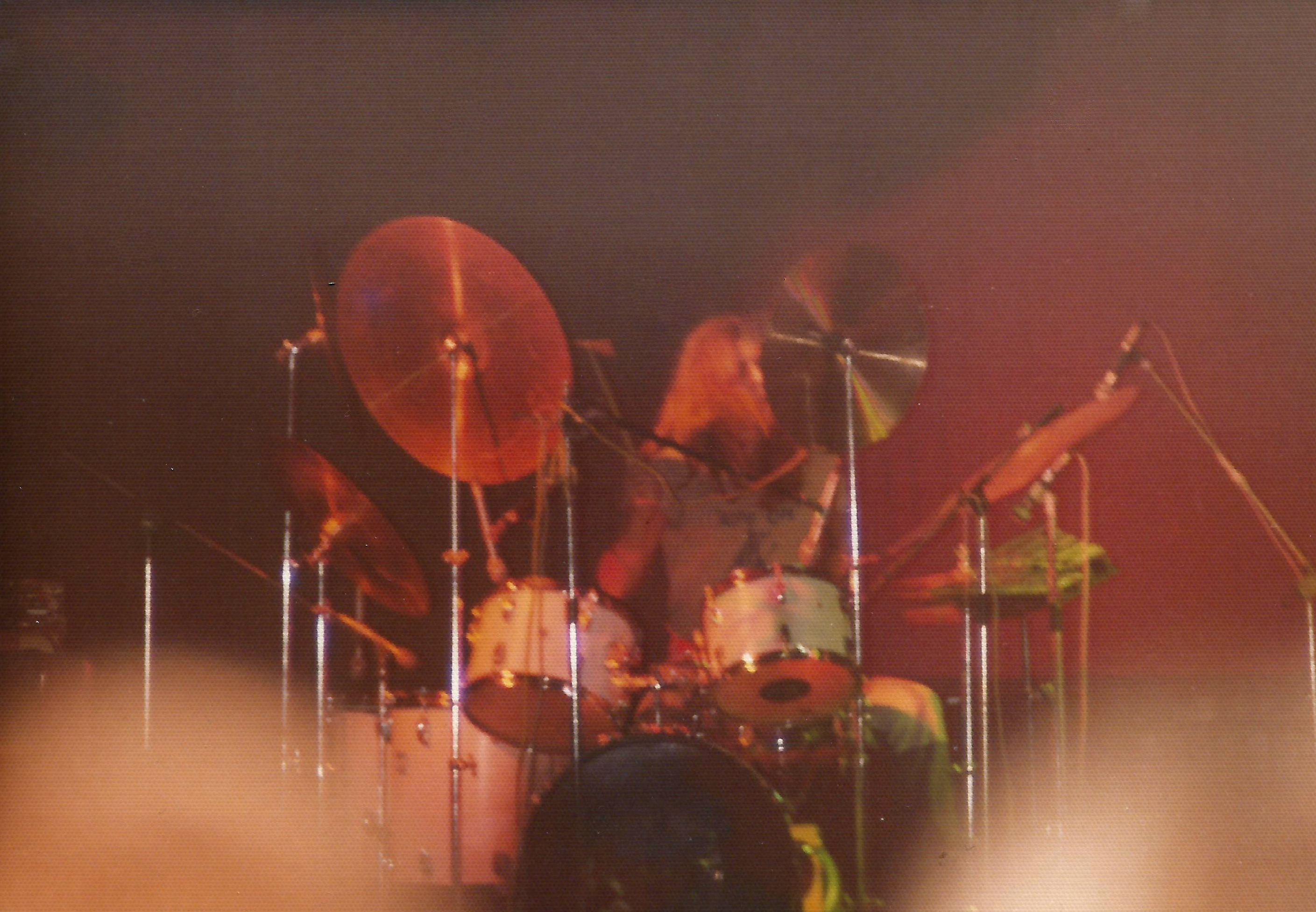 Andy Ward on stage with Camel at the Mountford Hall, Liverpool, in 1974.